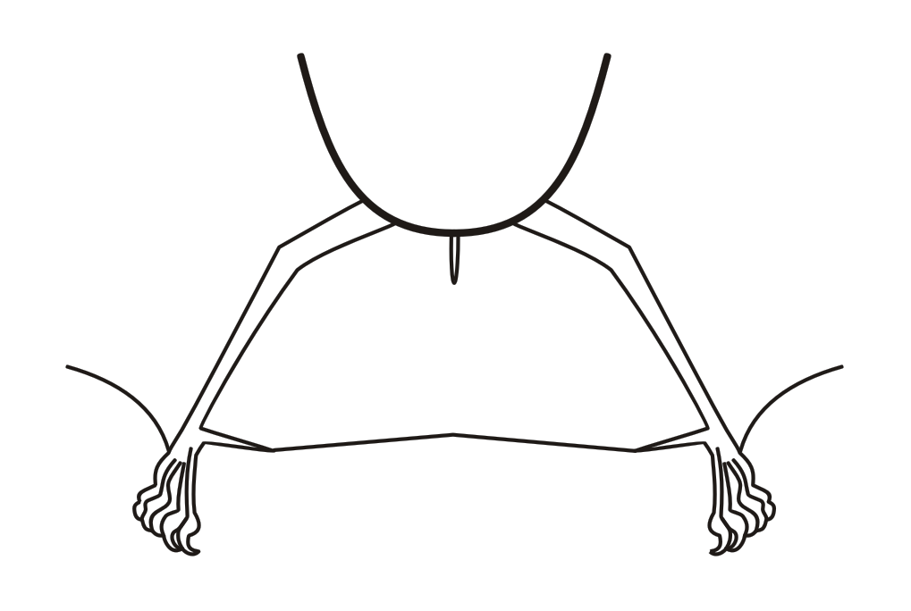 According to Husson, 1962 shows interfemoral membranes, calcar, feet and tail in bats of genus Choeroniscus